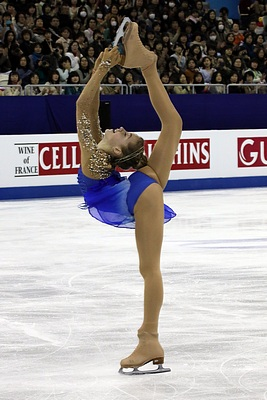 Elena Radionova at the World Championships 2015